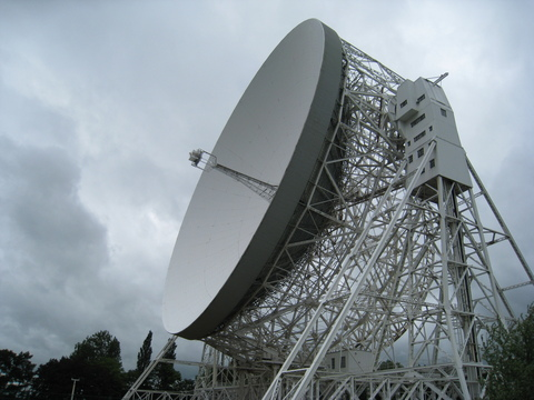 Astrosoc at Jodrell Bank